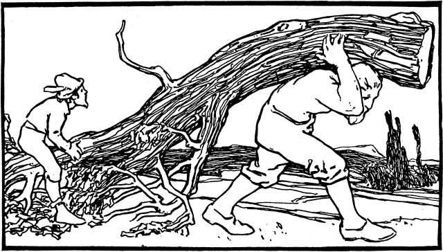 Illustration by Otto Ubbelohde to the fairy tale The Brave Little Tailor